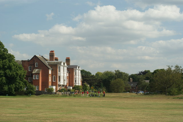 Wimbledon Common - Golf Course It's late afternoon, and golfers are arriving to practice their putting on the edge of the golf course.